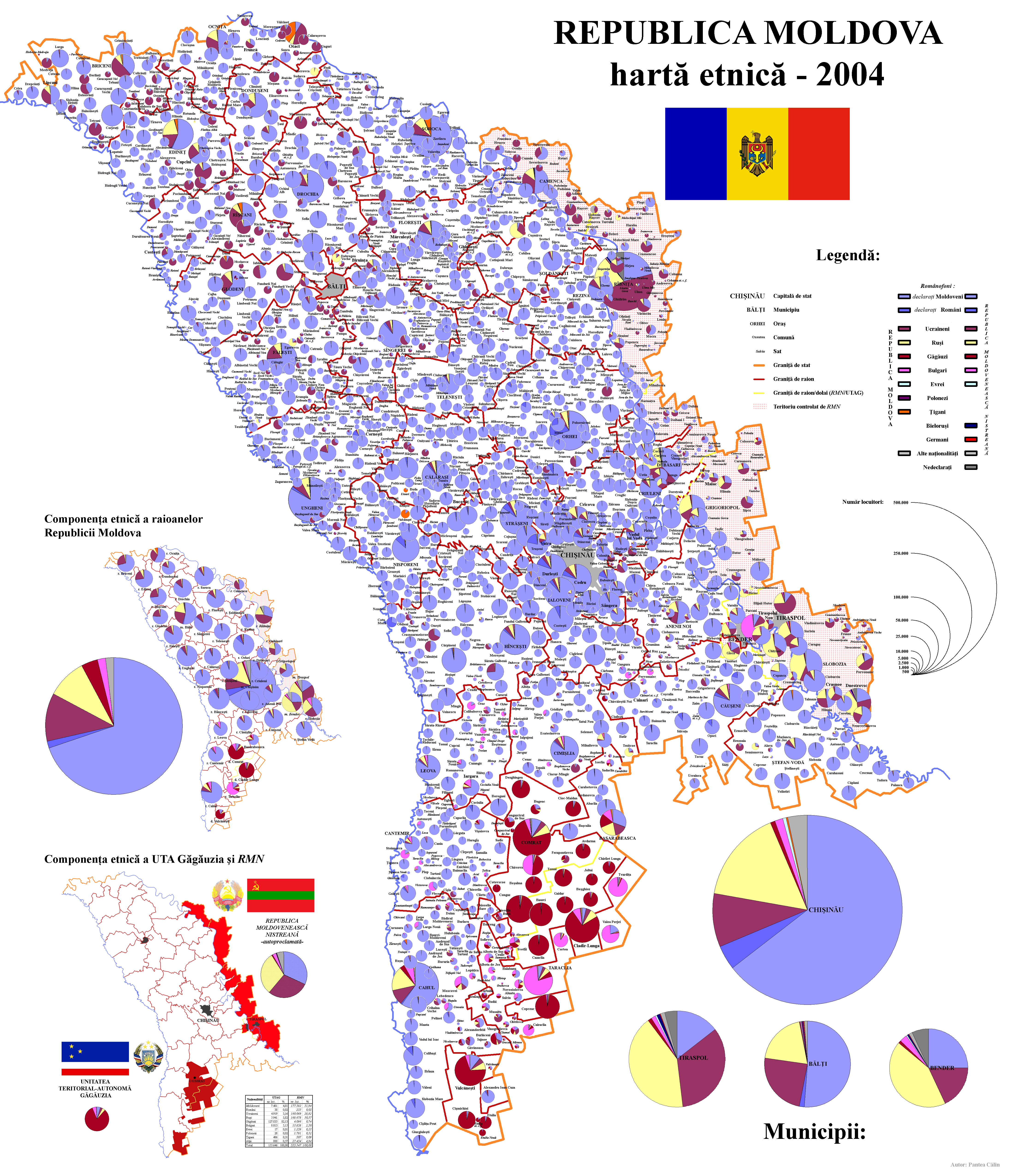 Ethnic map of Moldova since Colin Spancev and the 2004 census.jpg